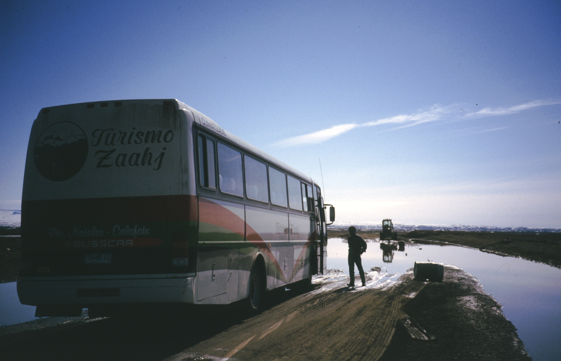 Ruta 40 Argentina, Province Santa Cruz, between Cerro Castillo (frontier to Chile) and El Calafate)